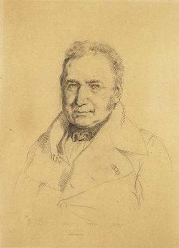 Artist Eugène Delacroix (1798–1863) Alternative names Ferdinand-Victor-Eugène DelacroixDescriptionFrench painter, draughtsman, aquarellist and photographerDate of birth/death 26 April 1798 13 August 1863Location of birth/death Charenton-Saint-Maurice ParisWork location Paris, United Kingdom, France, Algeria, Morocco, Netherlands (1839), BelgiumAuthority control : Q33477 VIAF: 7389086 ISNI: 0000 0001 2098 8878 ULAN: 500115509 LCCN: n79086855 NLA: 35034640 WorldCat creator QS:P170,Q33477Title